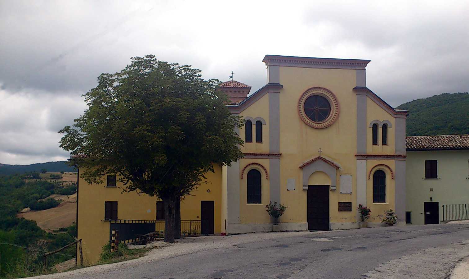 St. Mary, Stravignano, Nocera Umbra, Perugia, Umbria, Italy